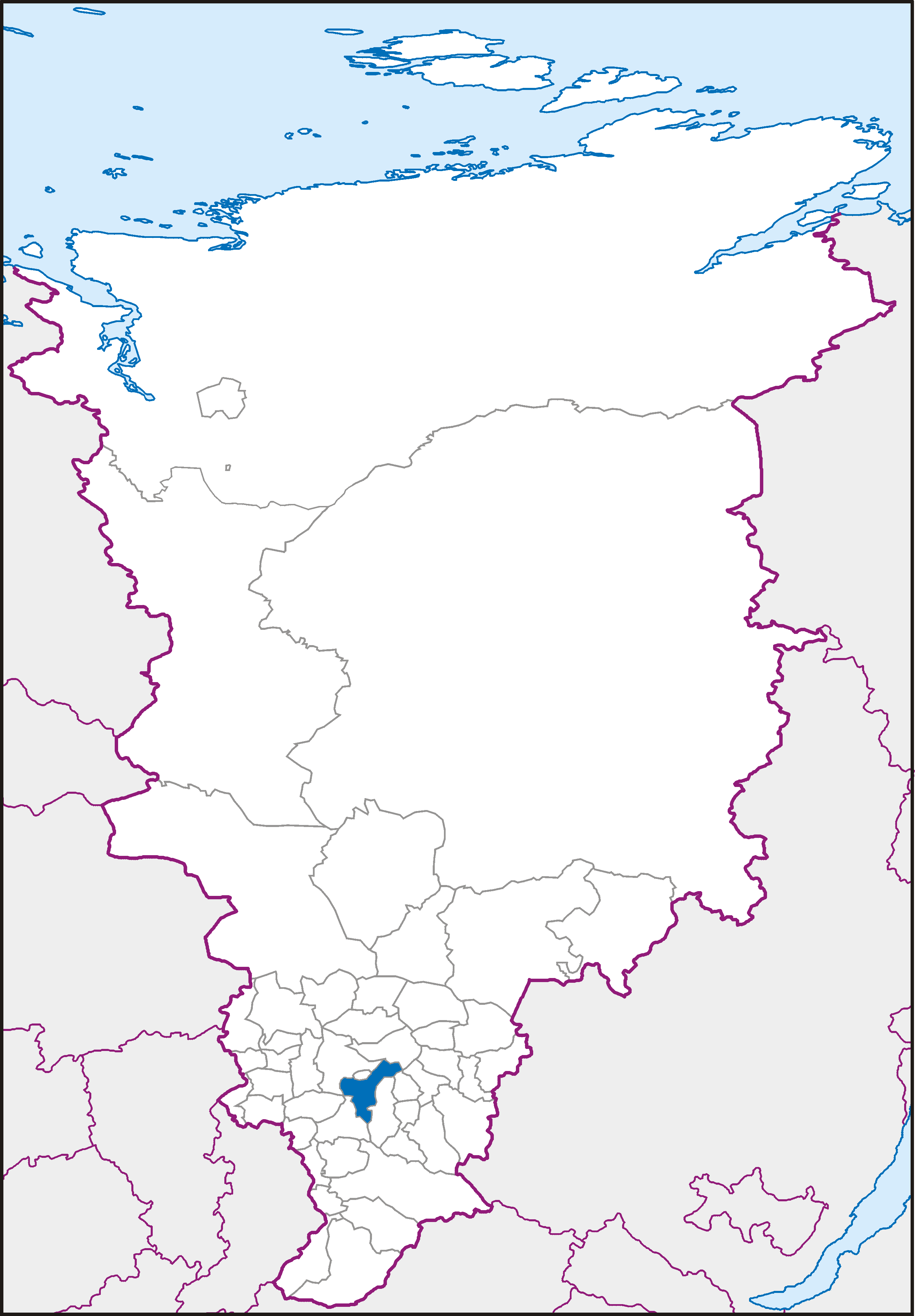 Map of Krasnoyarsk Krai in Albers Equal-Area Conic projection (Central Meridian = 95° E)